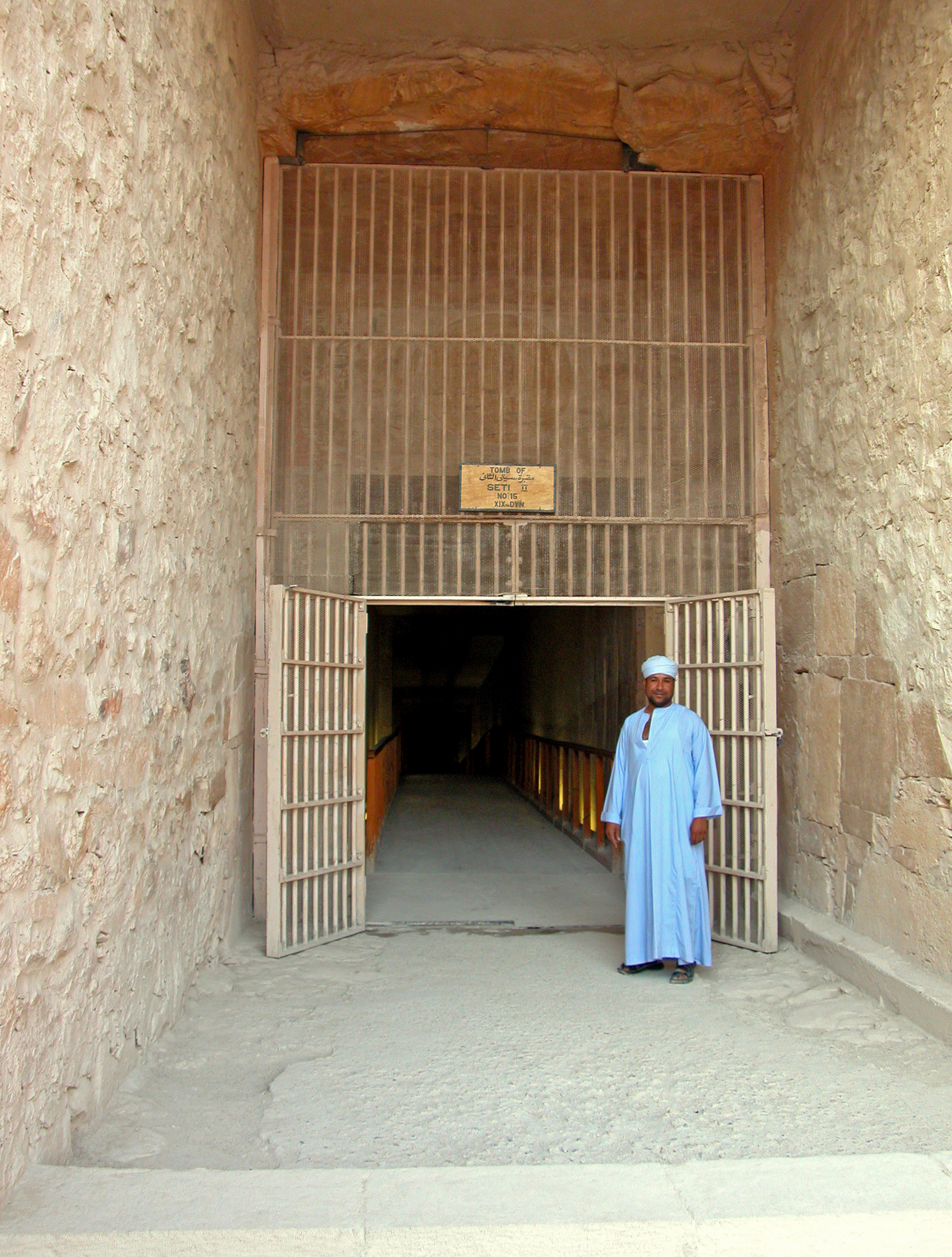 Tomb of Seti II the son of Merenptah, lived in unsettled times, perhaps reflected in the unfinished state of his Theban tomb. It is located in a separate branch at the south-west end of the Valley. Valley of the Kings, Egypt